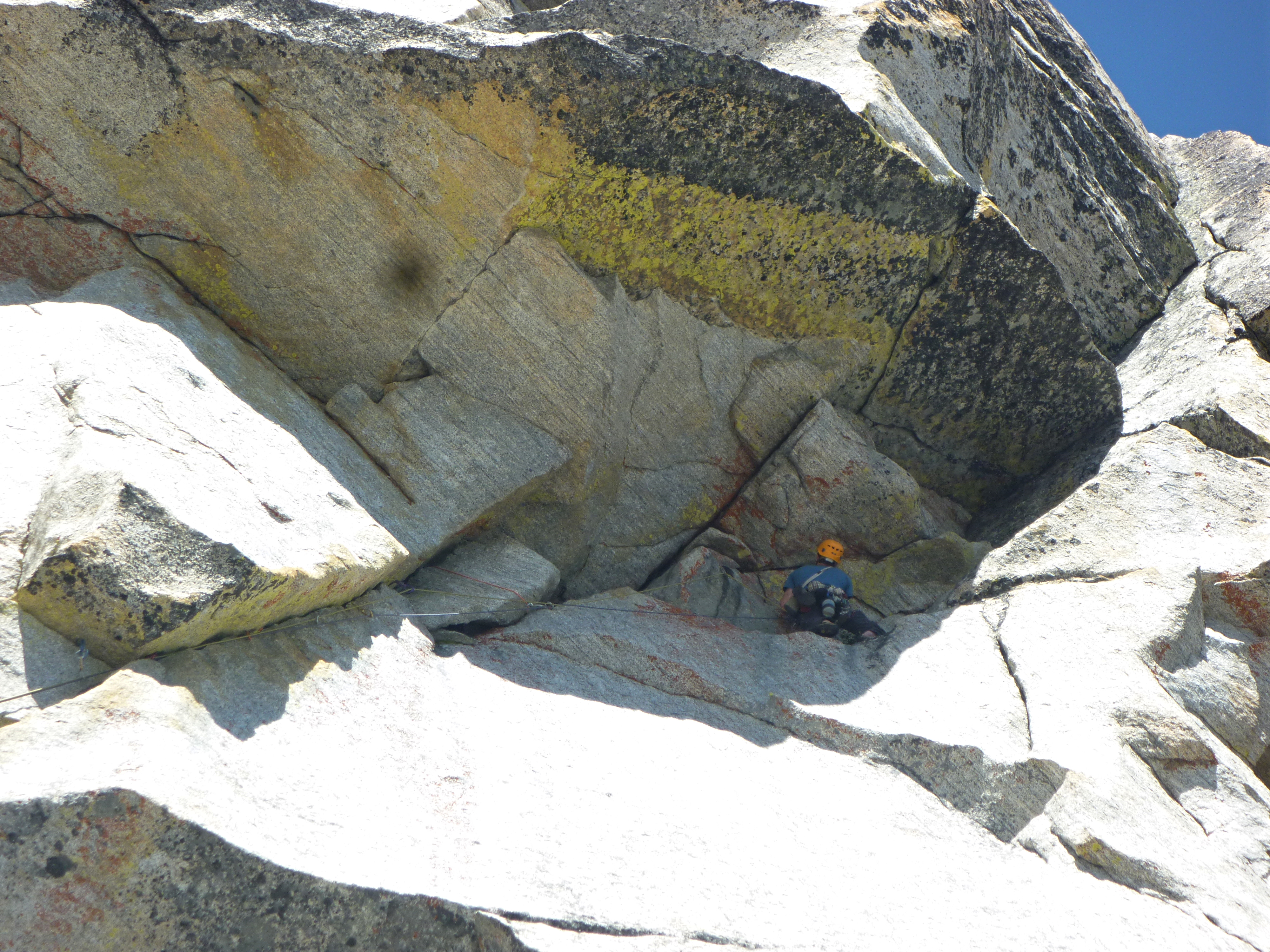 Solid Gold route on Prusik Peak, Cascade Range, WA State